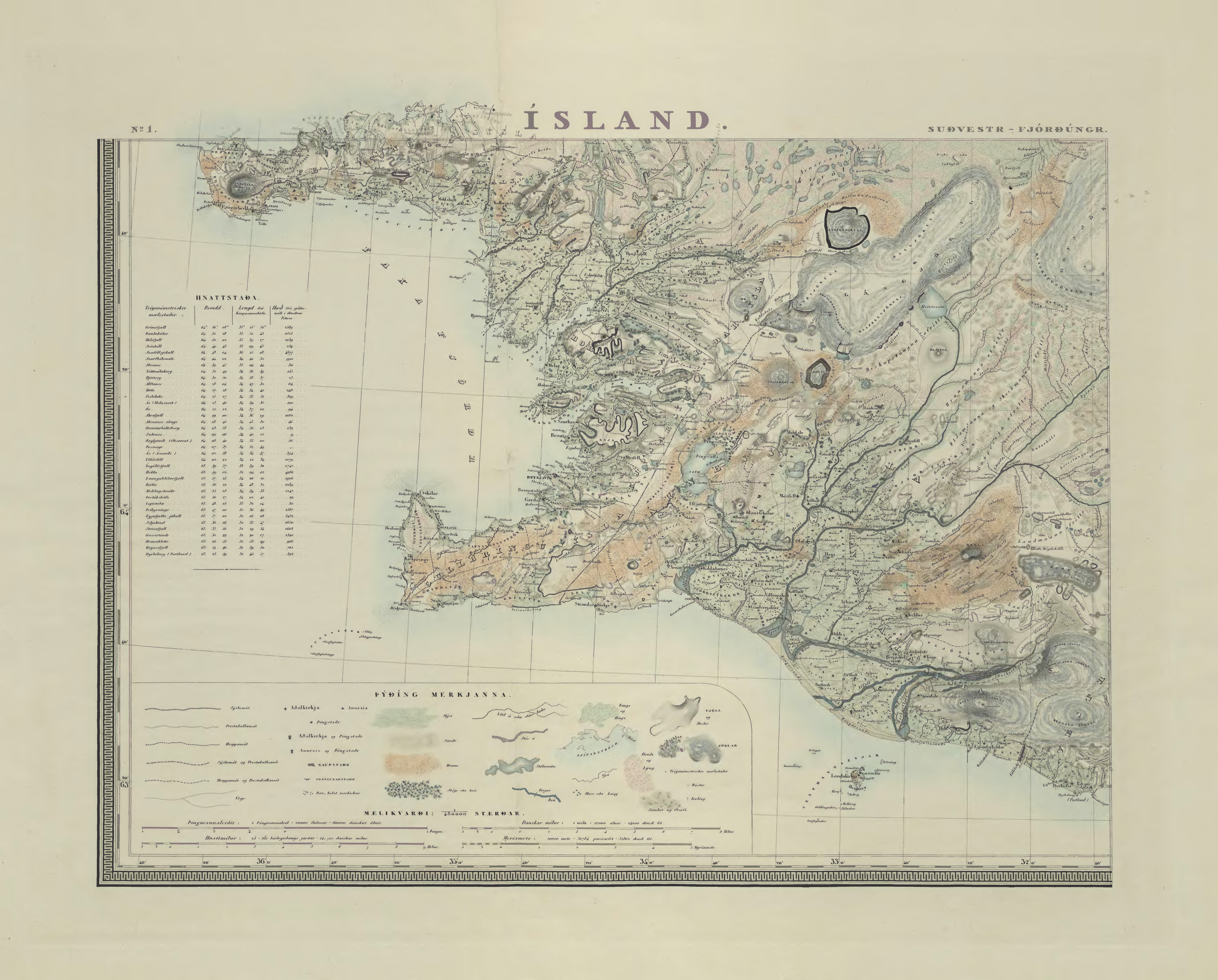 South-western quadrant of Gunnlaugsson's 1844 map of Iceland.